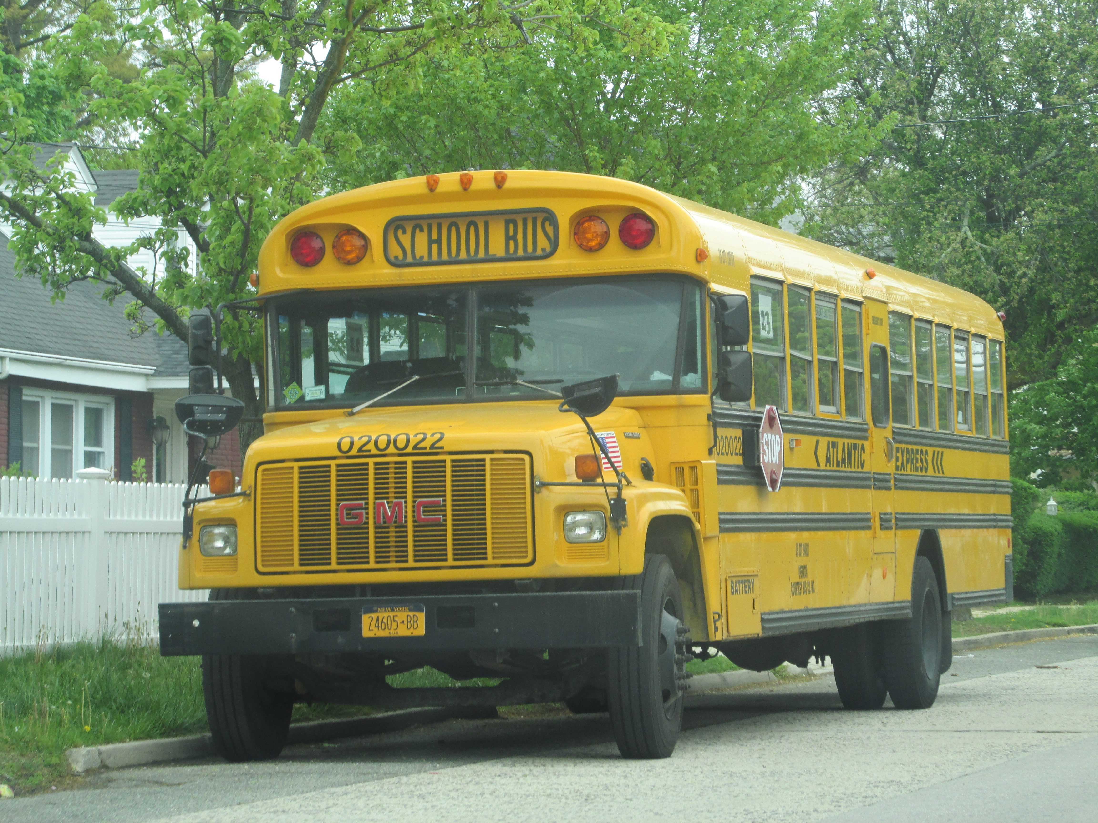 Baumann Bus Company #020022 Former Atlantic Express